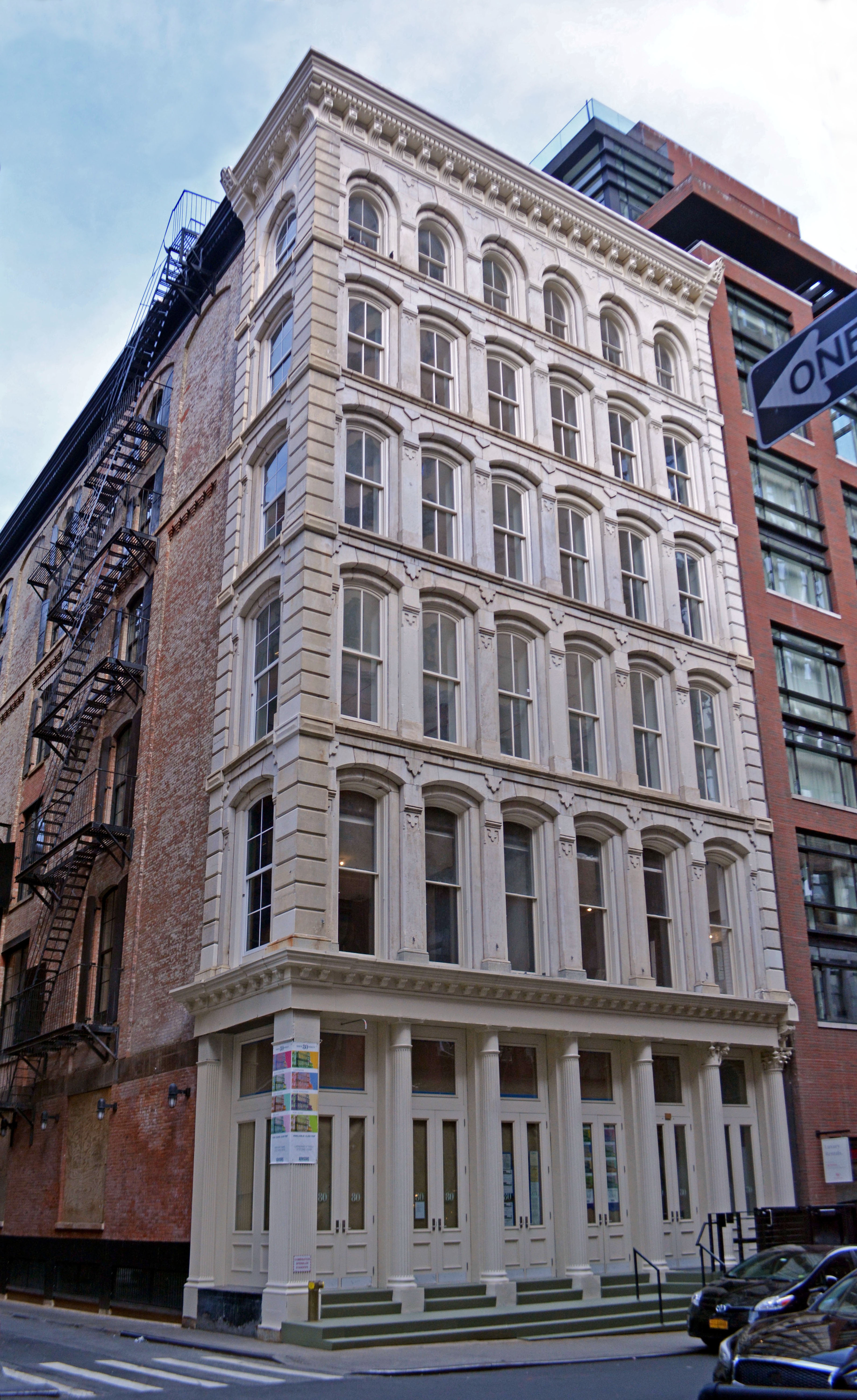 Street view of Artists Space at 80 White Street, Tribeca.